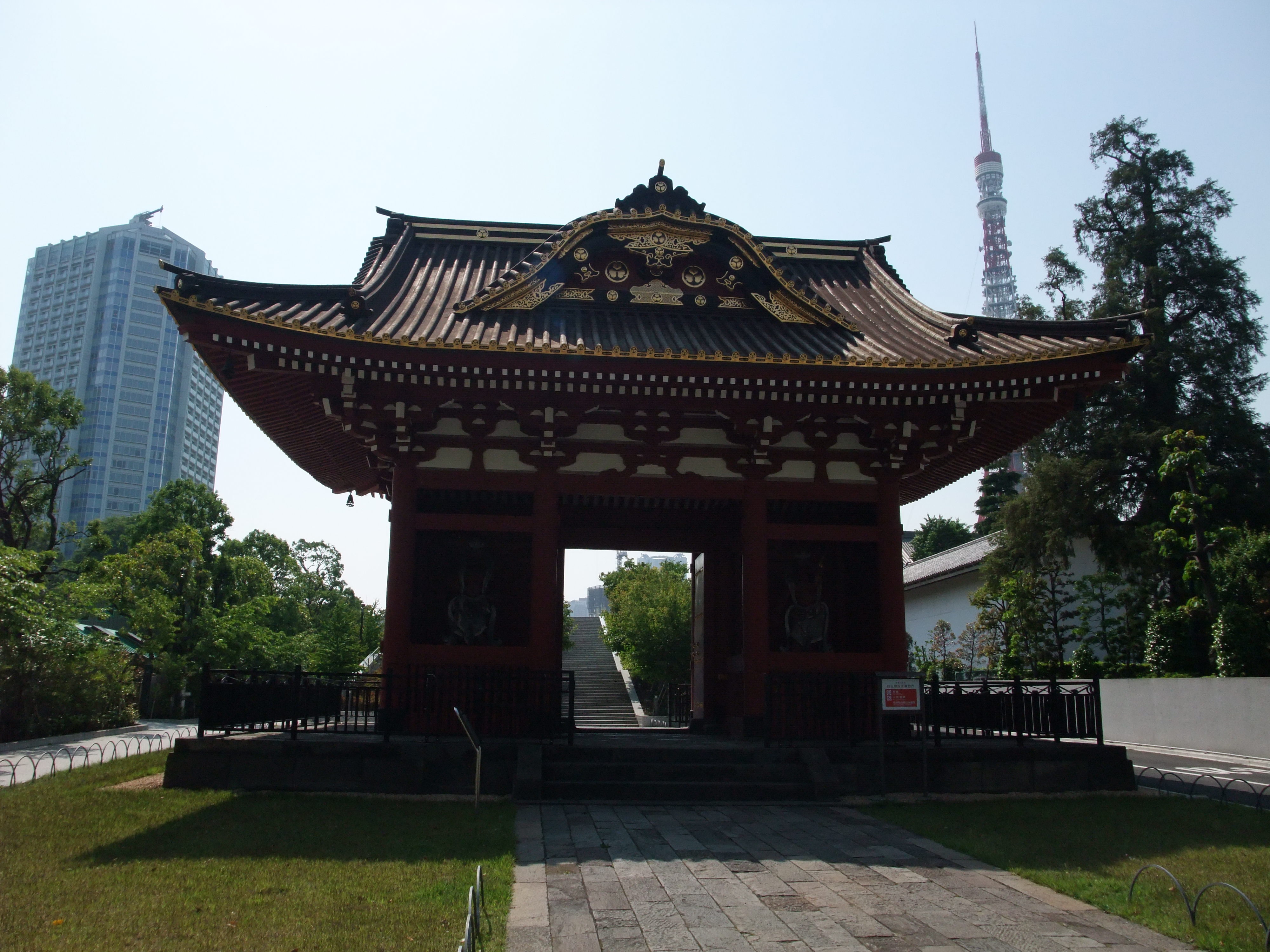 Gate of the mausoleum of Taitokuin (Tokugawa Hidetada, the 2nd Shogun of the Tokugawa Dynasty) located in Shiba Park, Minato-ku, Tokyo, Japan (Japan's national important cultural property)